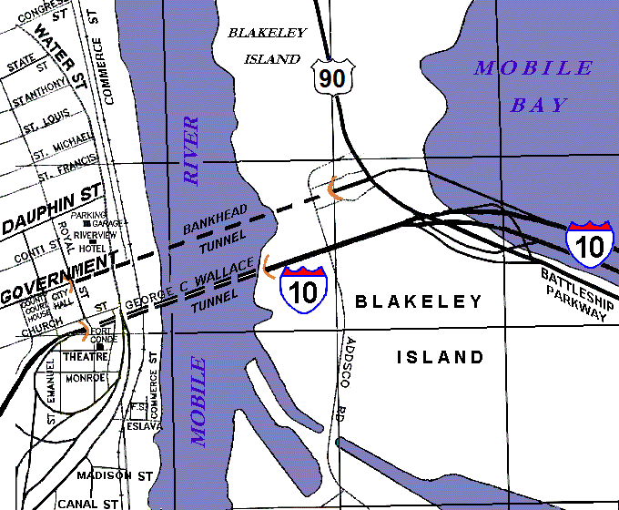 Rough diagram of central Mobile, Alabama, along the Mobile River, showing locations of the Bankhead Tunnel and the George C. Wallace Tunnel connecting Blakeley Island to downtown Mobile. The whole area is within the Mobile city limits which begin further east, just beyond Battleship Memorial Park along the Jubilee Parkway.